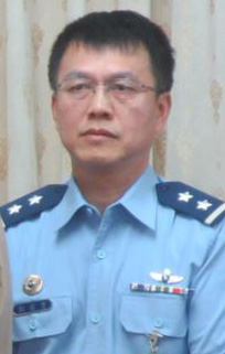 Lieutenant General Cheng Jung-feng, Chief of Staff of the Air Force Command Headquarters.